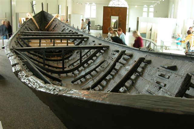 Nydam Boat, Gottorp Castle, Sleswig